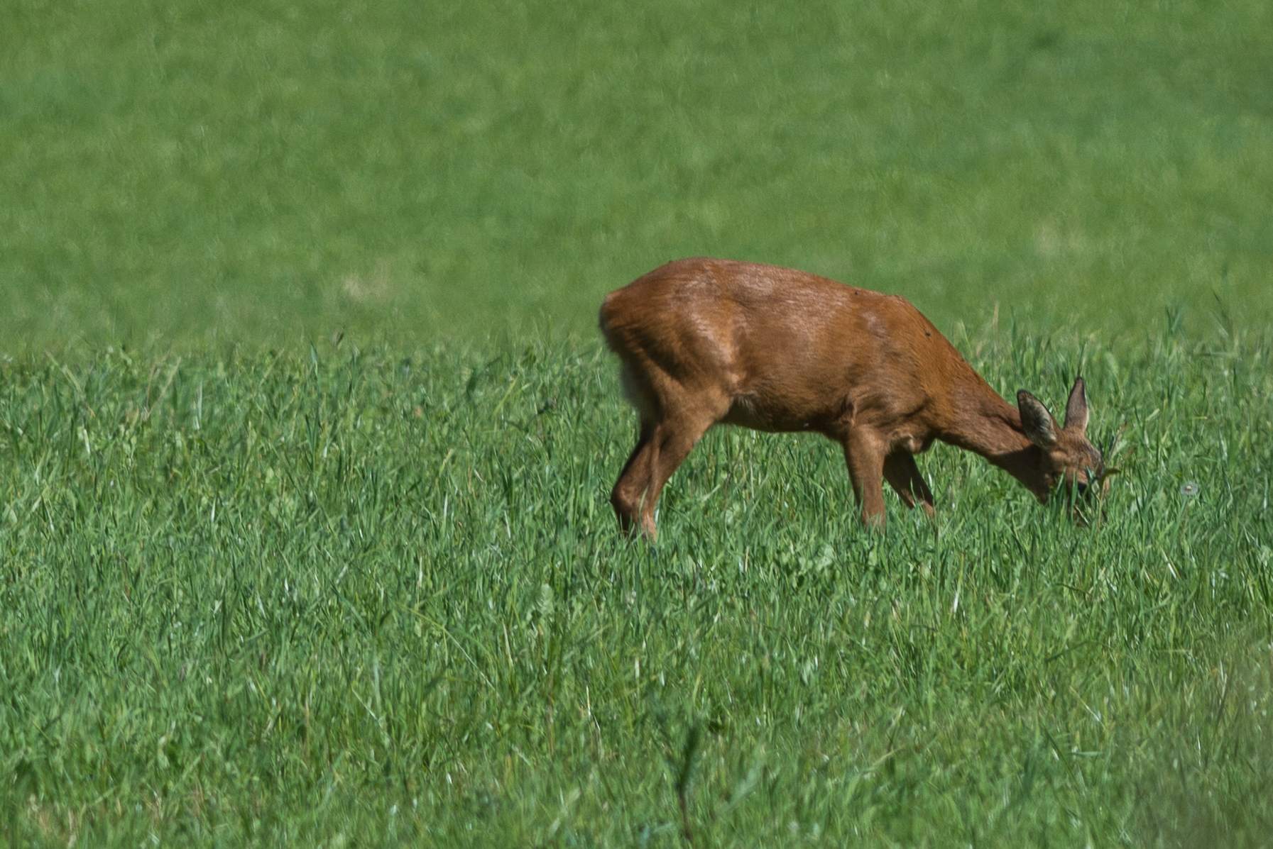 Bogesund July 2015